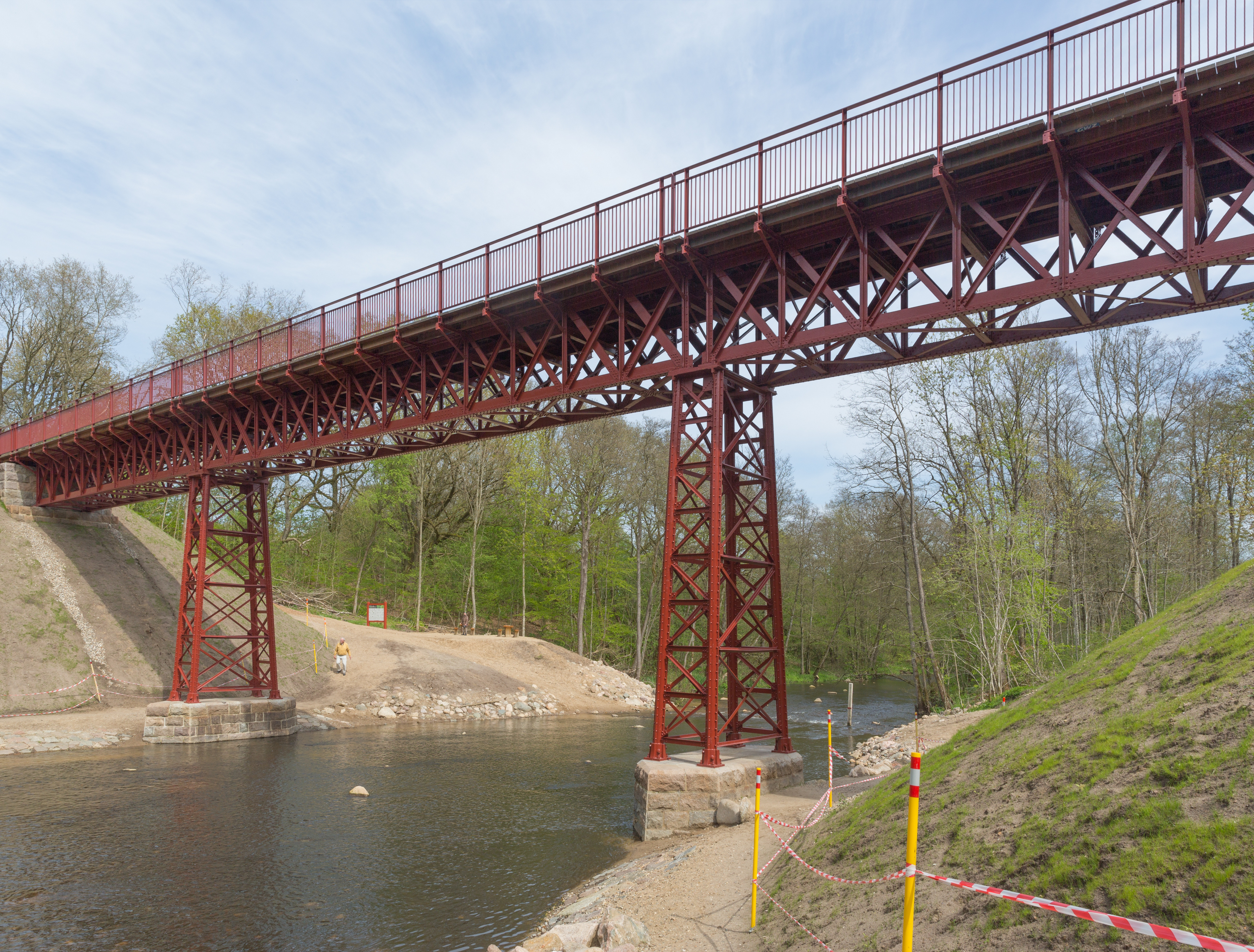 The recovered railway bridge over the river Gudenå at Gammelstrup